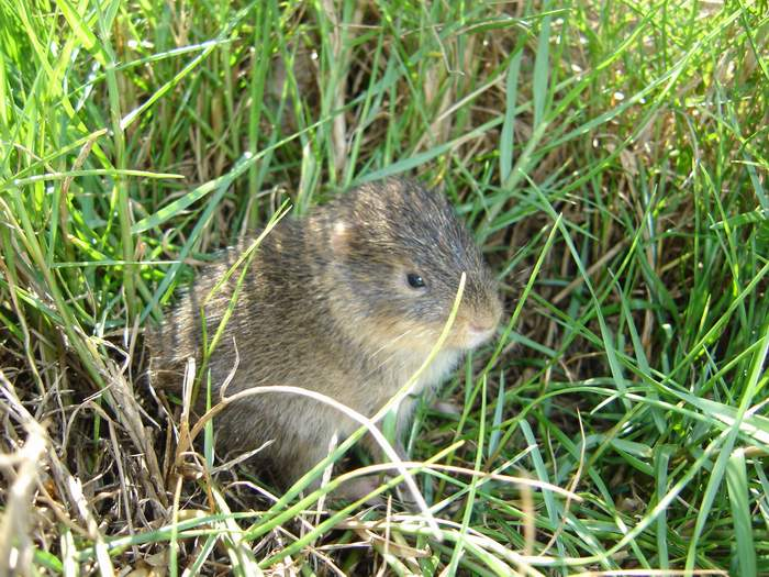 Young female of Santa Catarina Guinea-Pig in 2005 at Moleques do Sul Island, Santa Catarina State, Southern Brazil, where it is endemic.